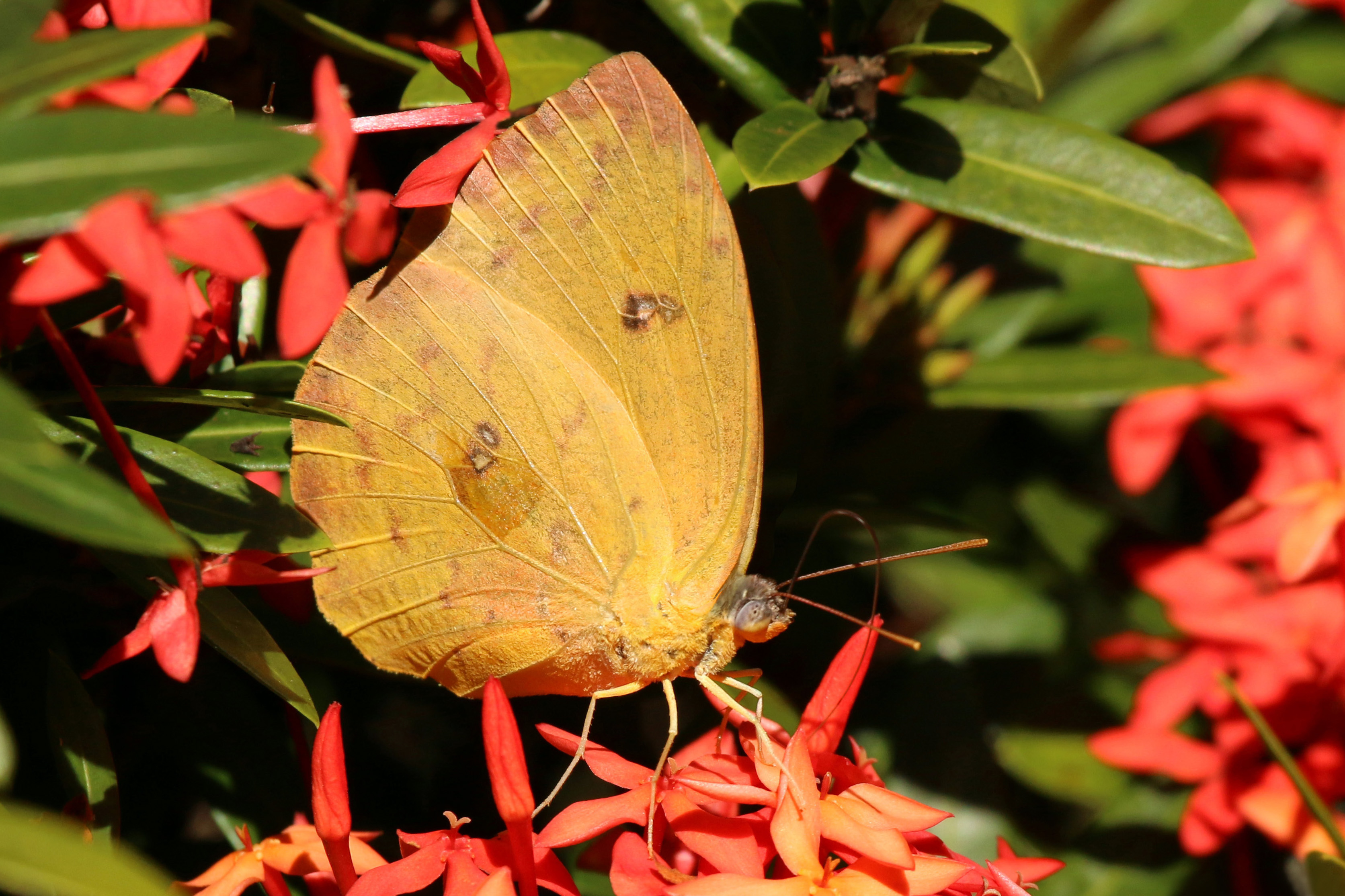 Cloudless sulphur (Phoebis sennae sennae) female, Tobago